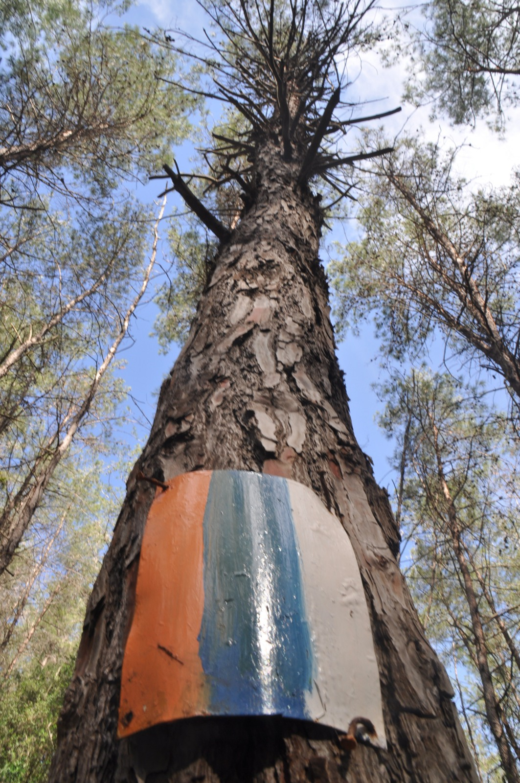 Geography of Israel